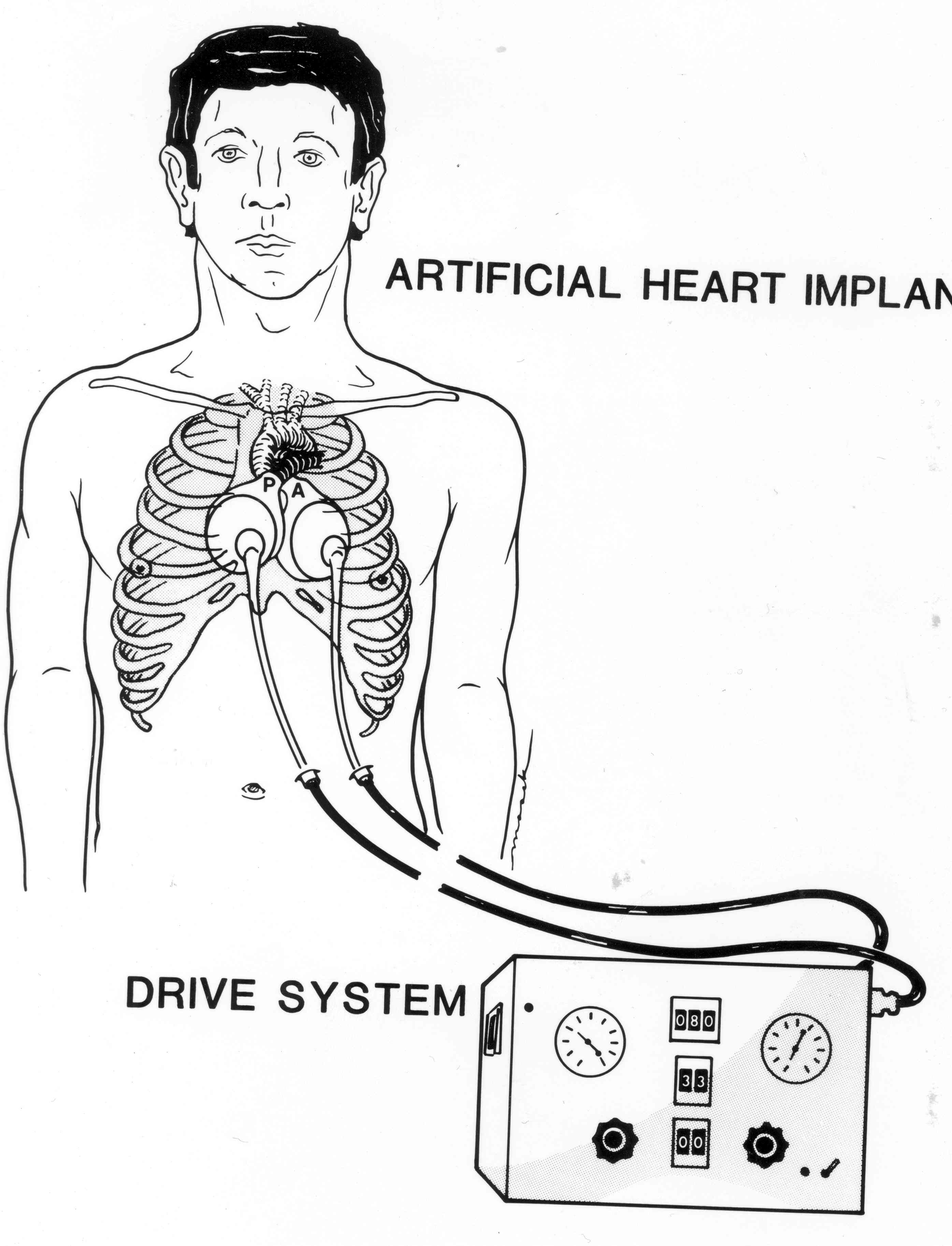 Title: The Jarvik-7 Artificial Heart Image ID: 3559 Photographer: Unknown Restrictions: Public Domain [1]